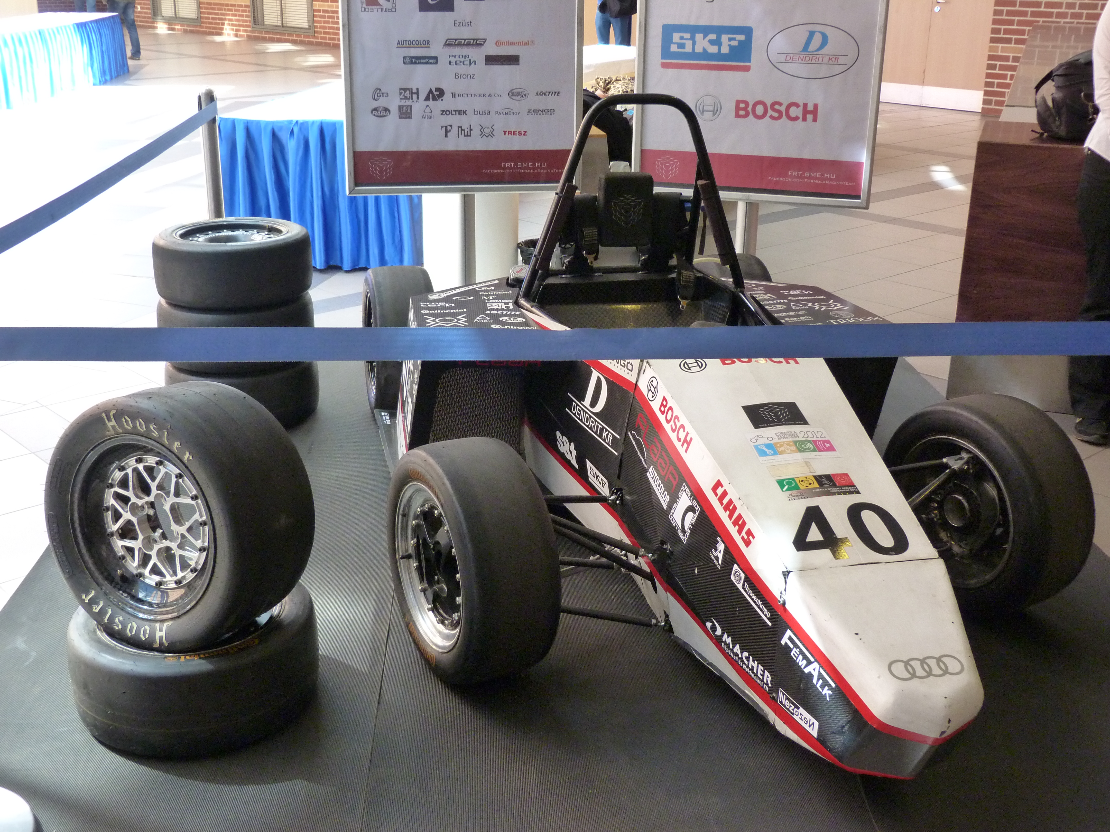 XI. Simonyi Conference – 2014.04.15 Live on the 15th of April, 2014. Budapest, Budapesti Műszaki Egyetem. The Simonyi Conference is the greatest student organized professional event of both the Vocational College and the Faculty of Electric Engineering and Informatics. Simonyi Károly (father of Charles SimonyI) worked at the Budapesti Műszaki Egyetem, his lectures and engagement for engineering science was outstanding. Detailes in Hungarian. ©© Derzsi Elekes Andor, Budapest, 2014, You are authorised to use these photos and vids under Creative Commons – even for commercial, for profit purposes. Photos must be attributed to Derzsi Elekes Andor. All of the photos and vids in the Metapolisz DVD line are under Creative Commons and can be used even for commercial – for profit – purposes. Recommended Citation Derzsi Elekes Andor: Metapolisz DVD line Sources